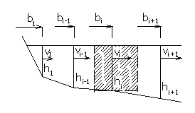 computation of discharge - midsection method